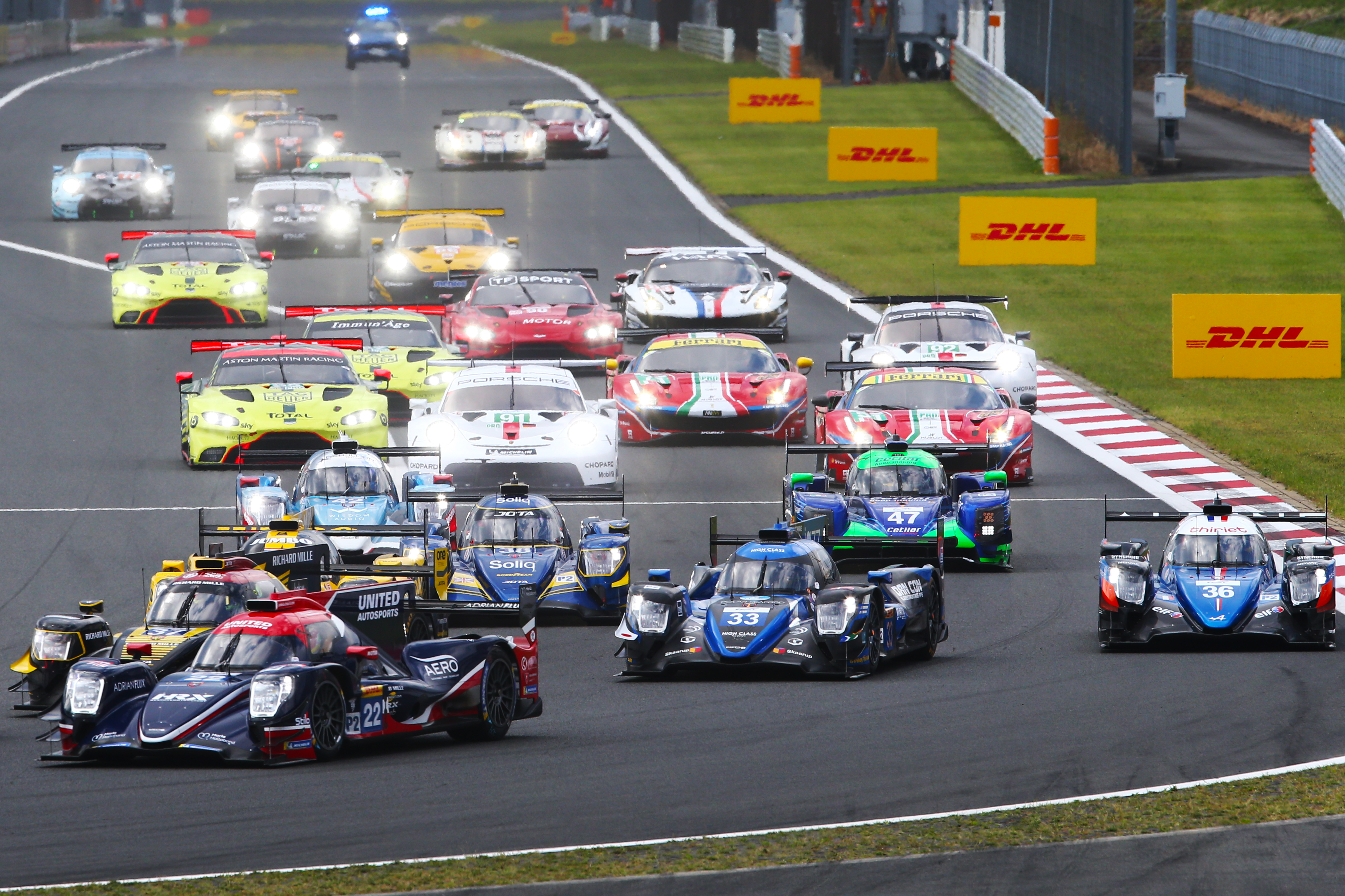 Start of the LMP2 & LMGTE Field at the 6 hours of Fuji.